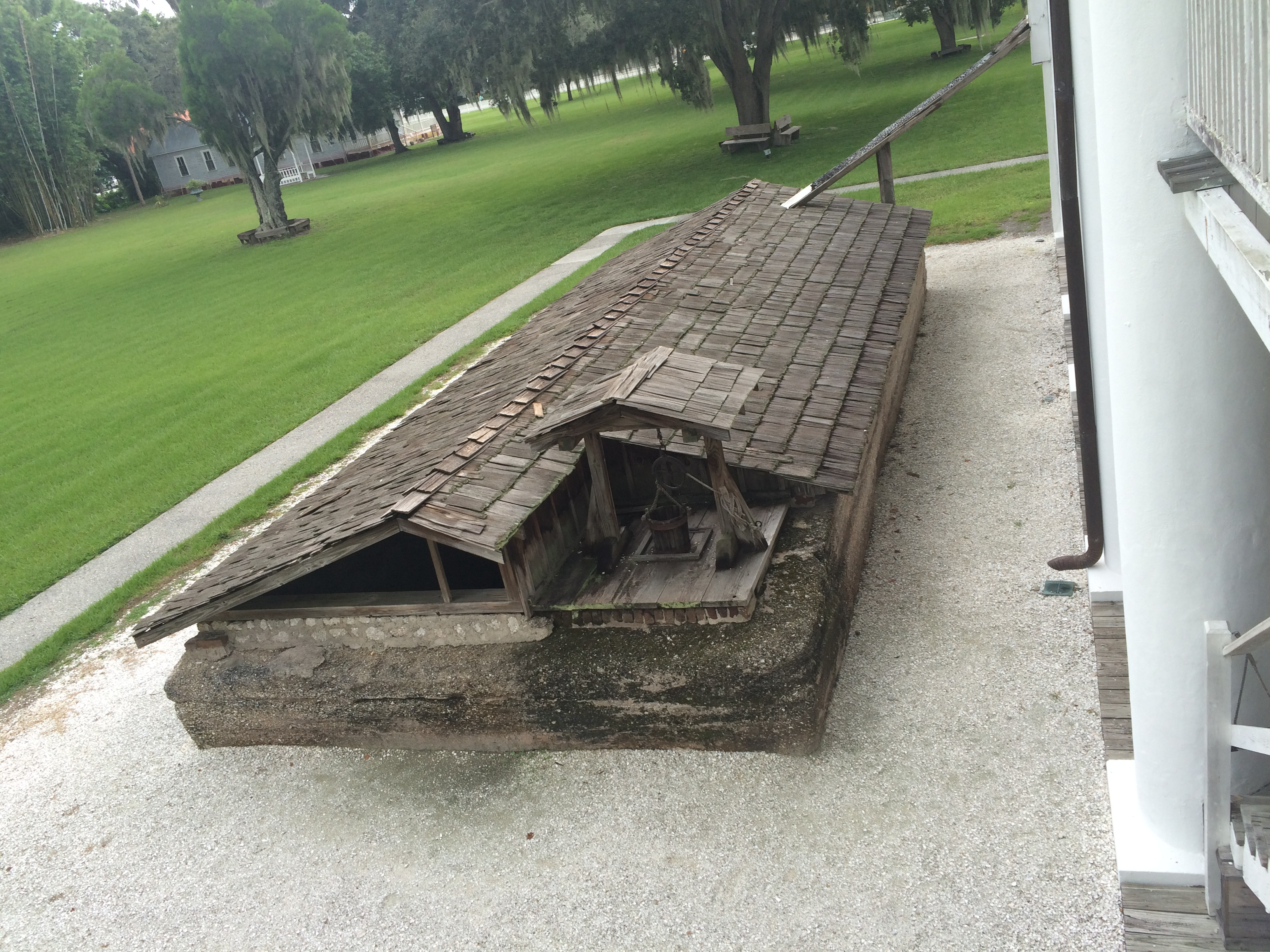 View of the covered cistern from the North, Gamble Plantation.